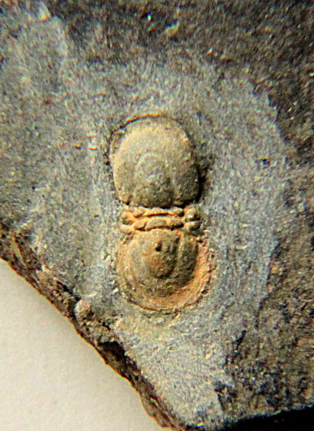 A Geragnostus mediterraneus trilobite, Order Agnostida, Family Metagnostidae, 6mm measured along the axis, collected at the St.Chinian Formation, France, from the Middle Ordovician